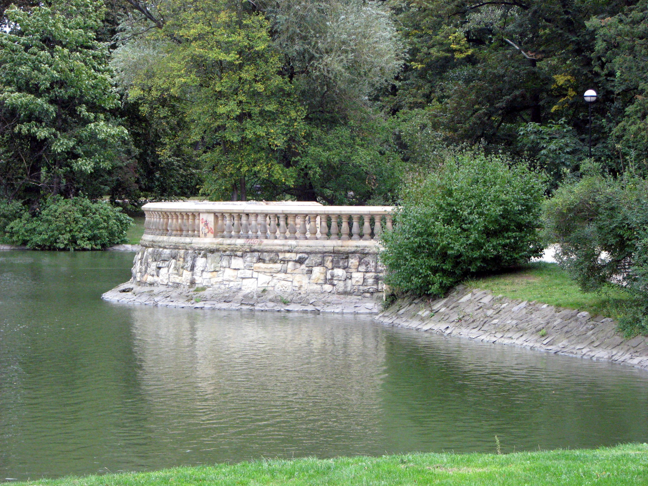 Pond and Landsberg observation deck in South Park in Wrocław, Poland.